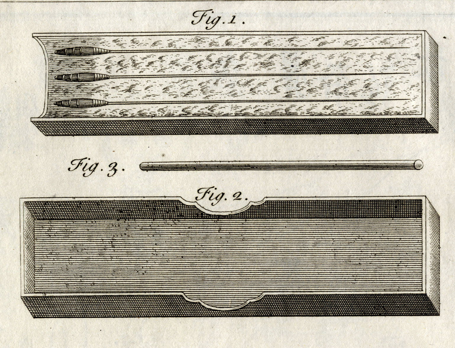 Guiding tube needle set in Engelbert Kaempfer "The History of Japan" (London, 1727). These guiding tubes for acupuncture were an invention of the blind Japanese acupuncturist Sugiyama Waichi (1610-1694).